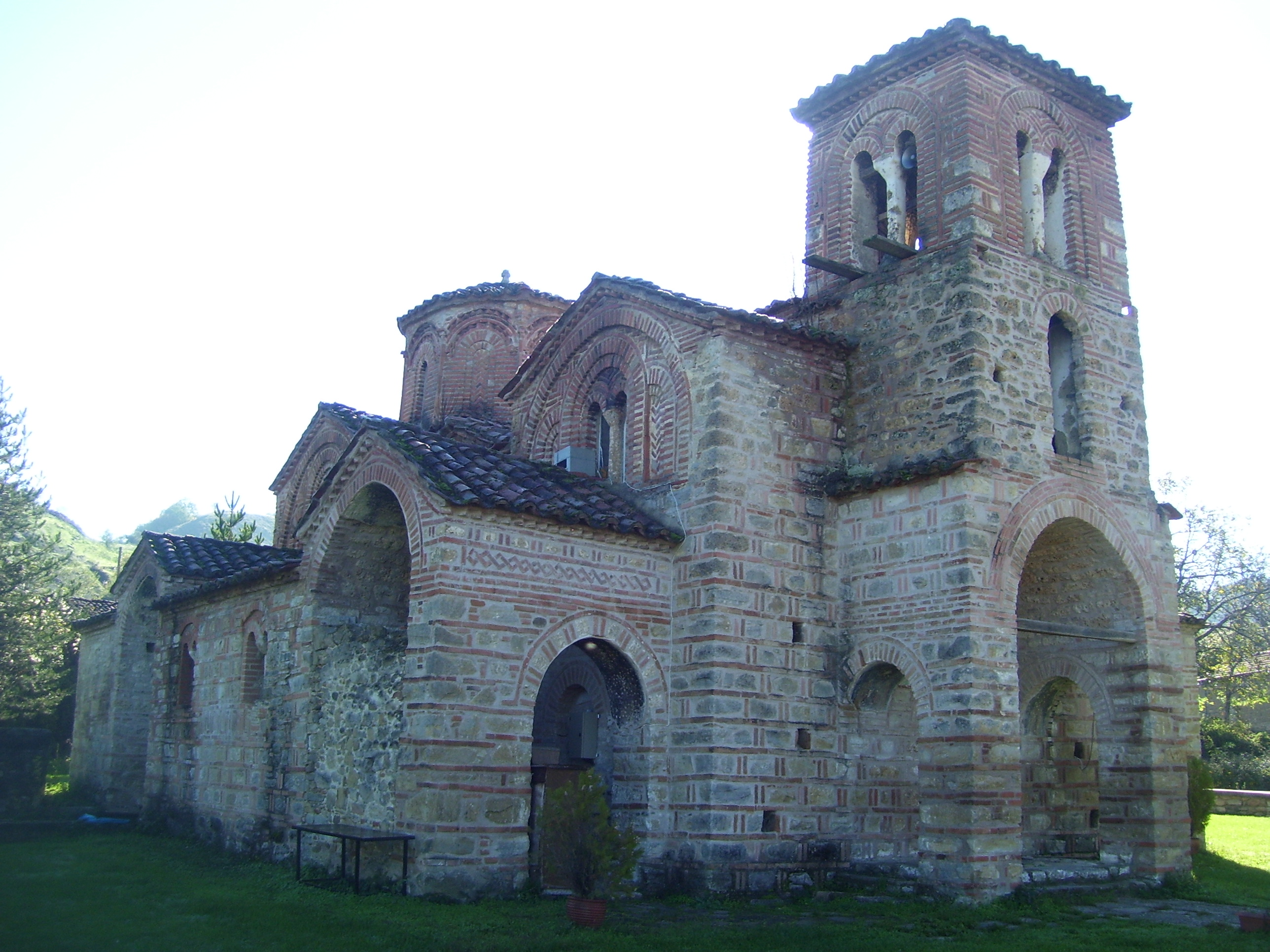 Church of "St George" in Omorfokklisia, Kasoria region, Greece.